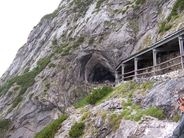 Entrance of the ice cave in Werfen, Austria